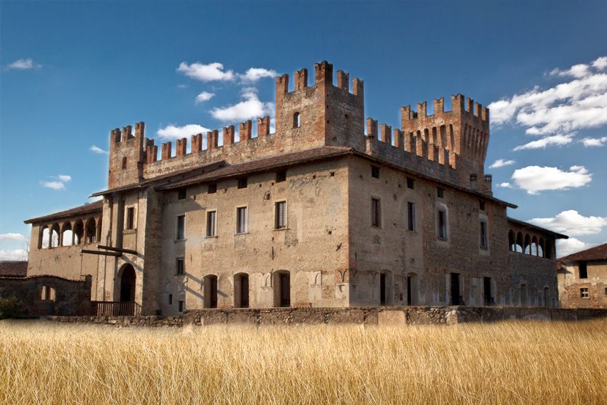 The Malpaga castle from the surrounding fields